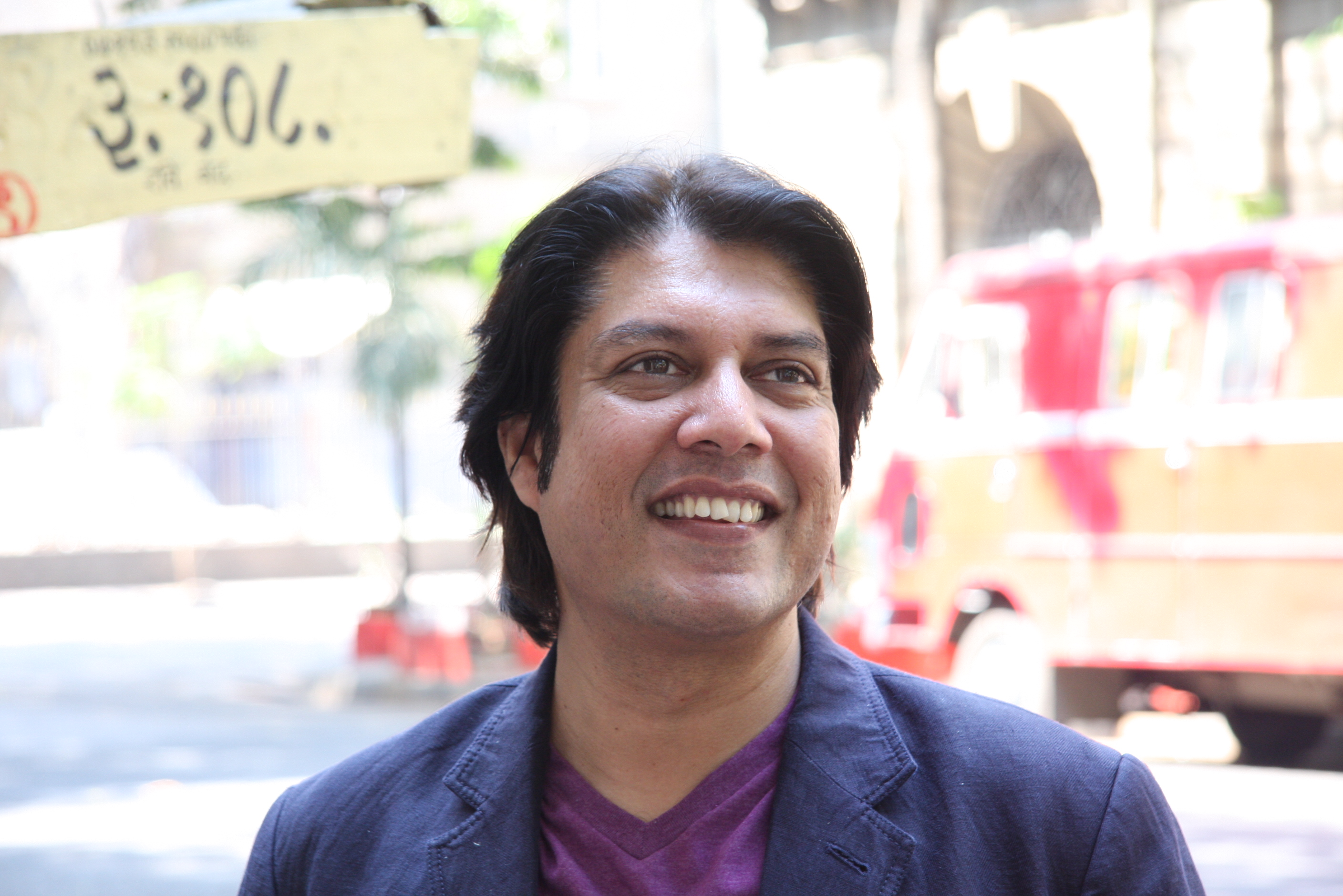 Piyush Jha standing near a bus stop.